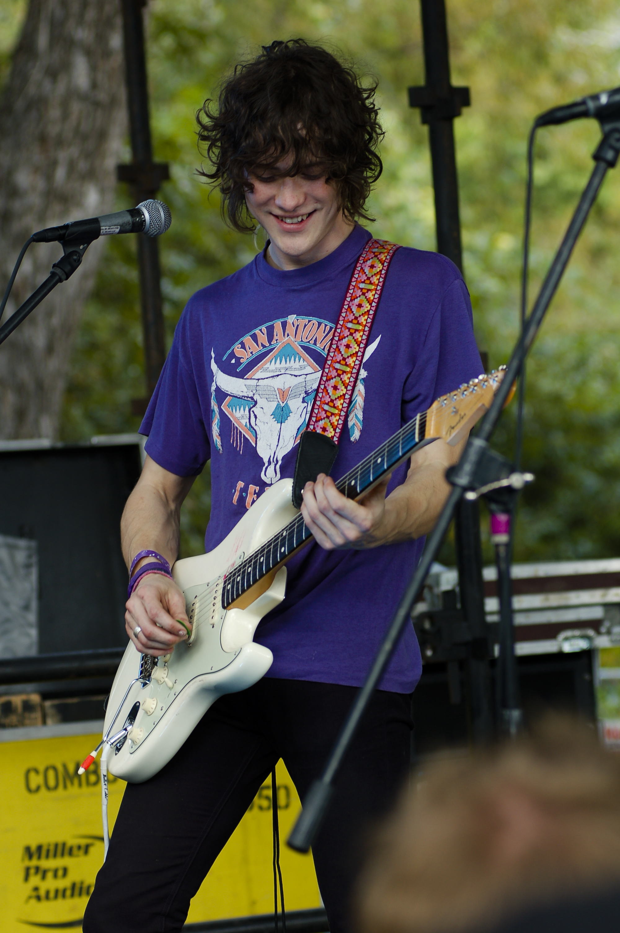 Andrew VanWyngarden with his groupe MGMT at Austin, Texas, in 2007.